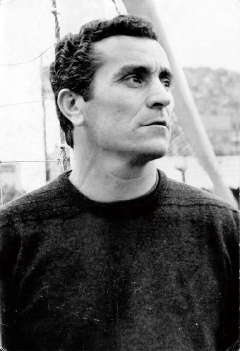 River Plate player Amadeo Carrizo. El Gráfico.